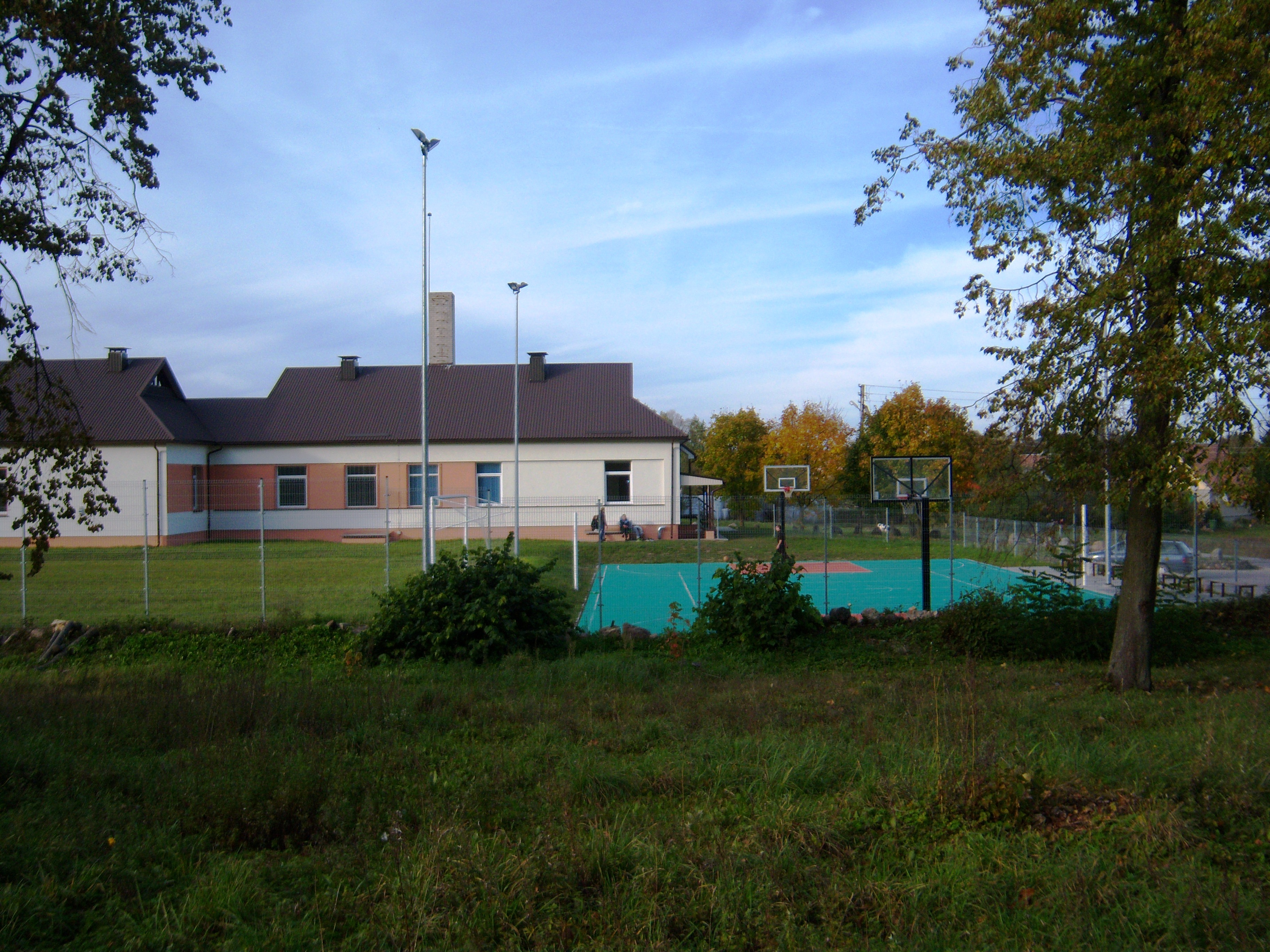 Community House in Bartninkai, Vilkaviškis District, Lithuania